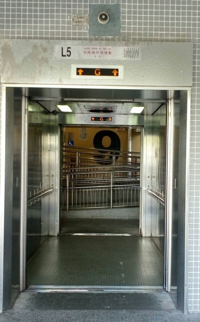 Kwai Shing West Estate Lift No.5.